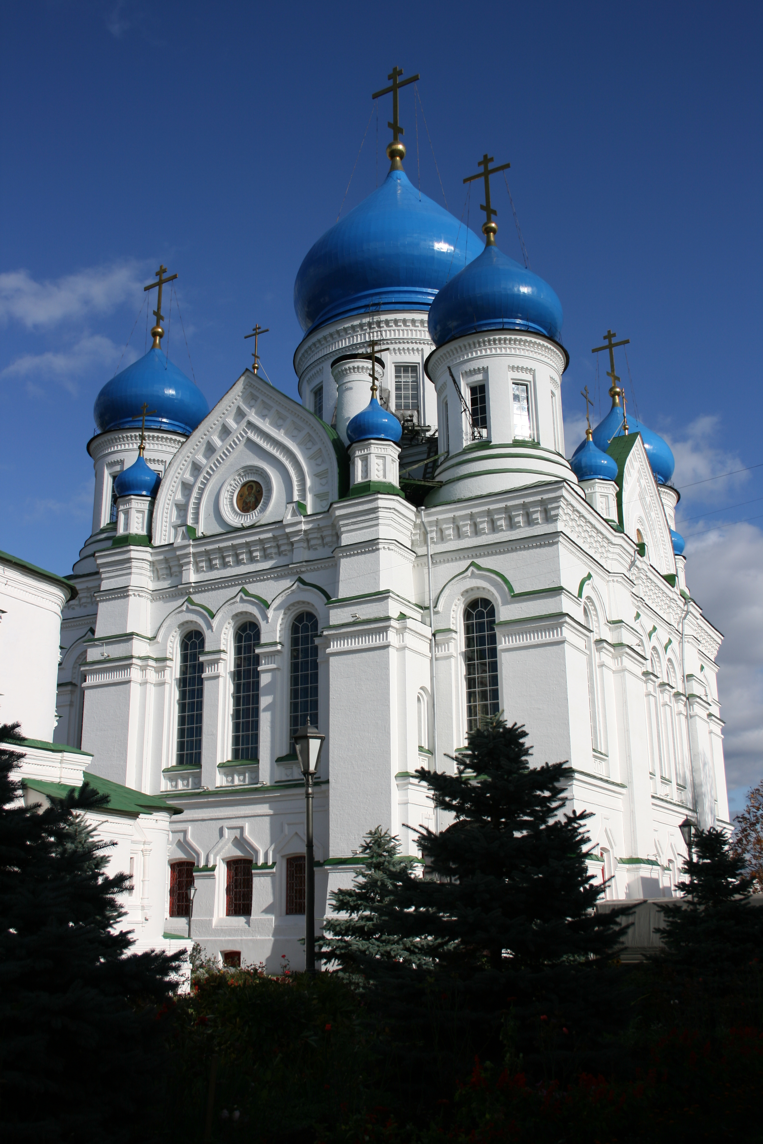 Iversky temple of Nikolo-Perervinsky Monastery